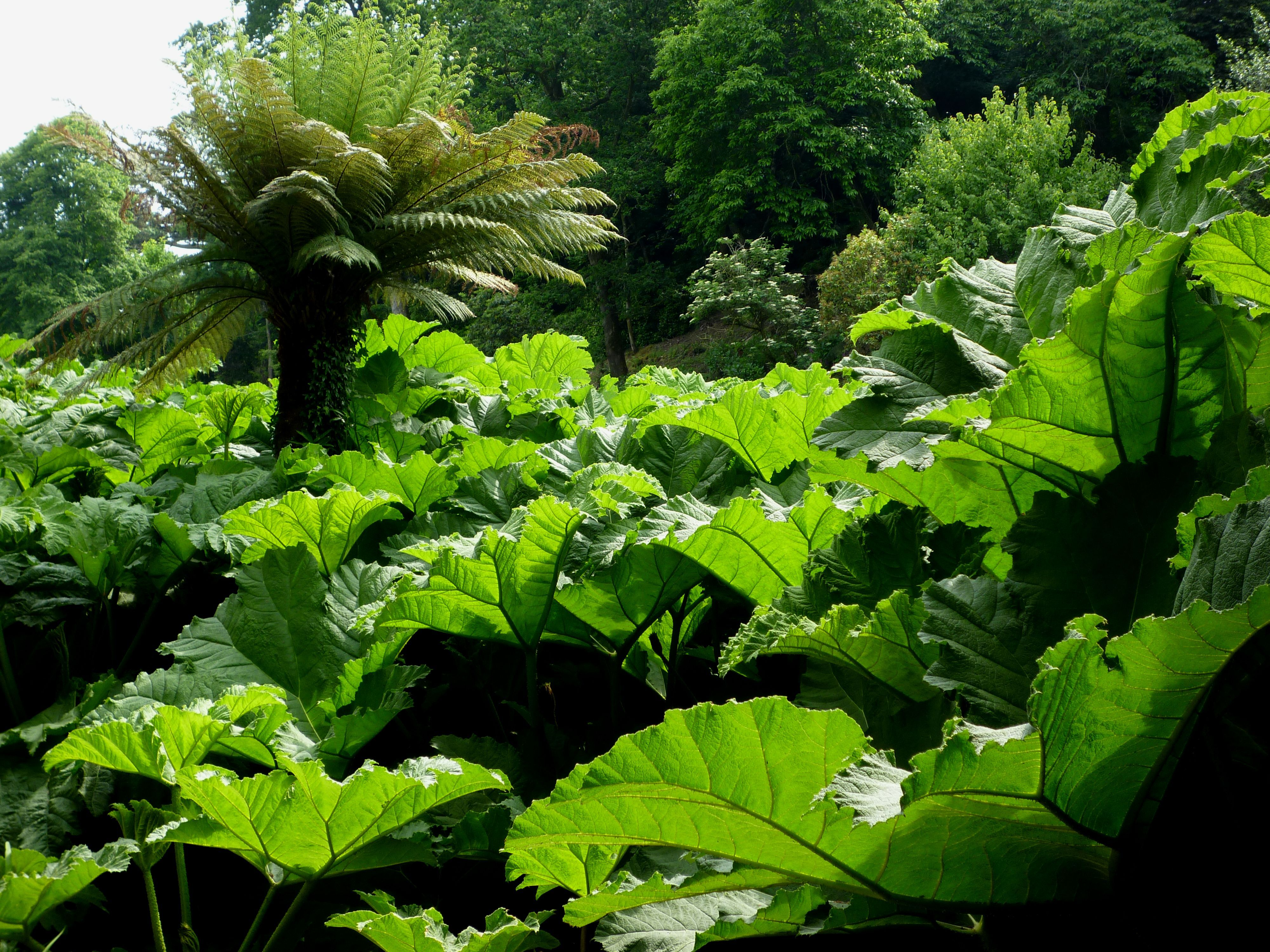 Falmouth - Trebah Garden, Gunnera manicata.jpg